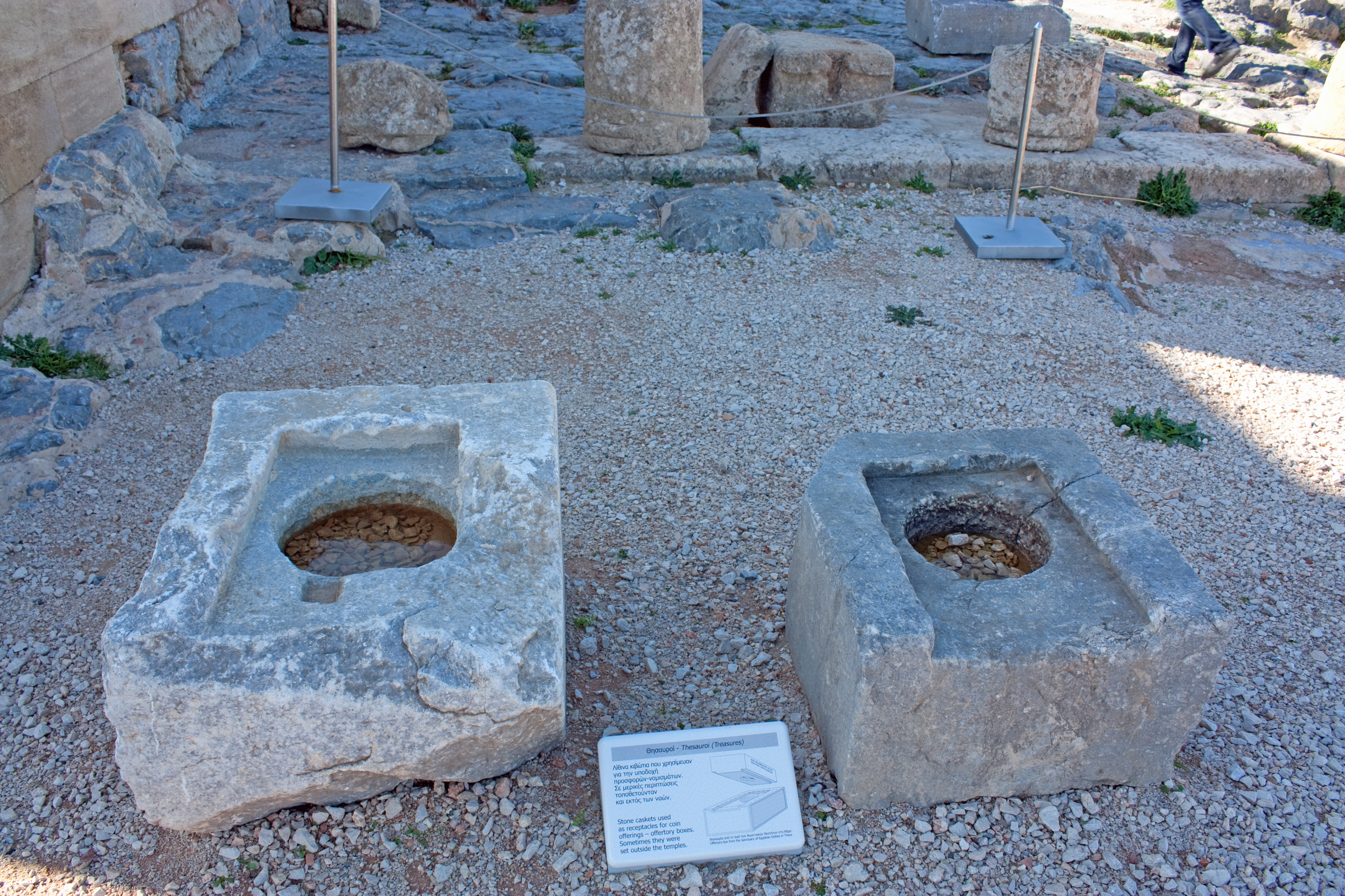 Treasures - stone offertory boxes - near the Temple of Athena Lindia on the acropolis of Lindos in Rhodes, Greece.